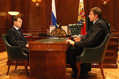 GORKI, MOSCOW REGION. With Justice Minister Alexander Konovalov.